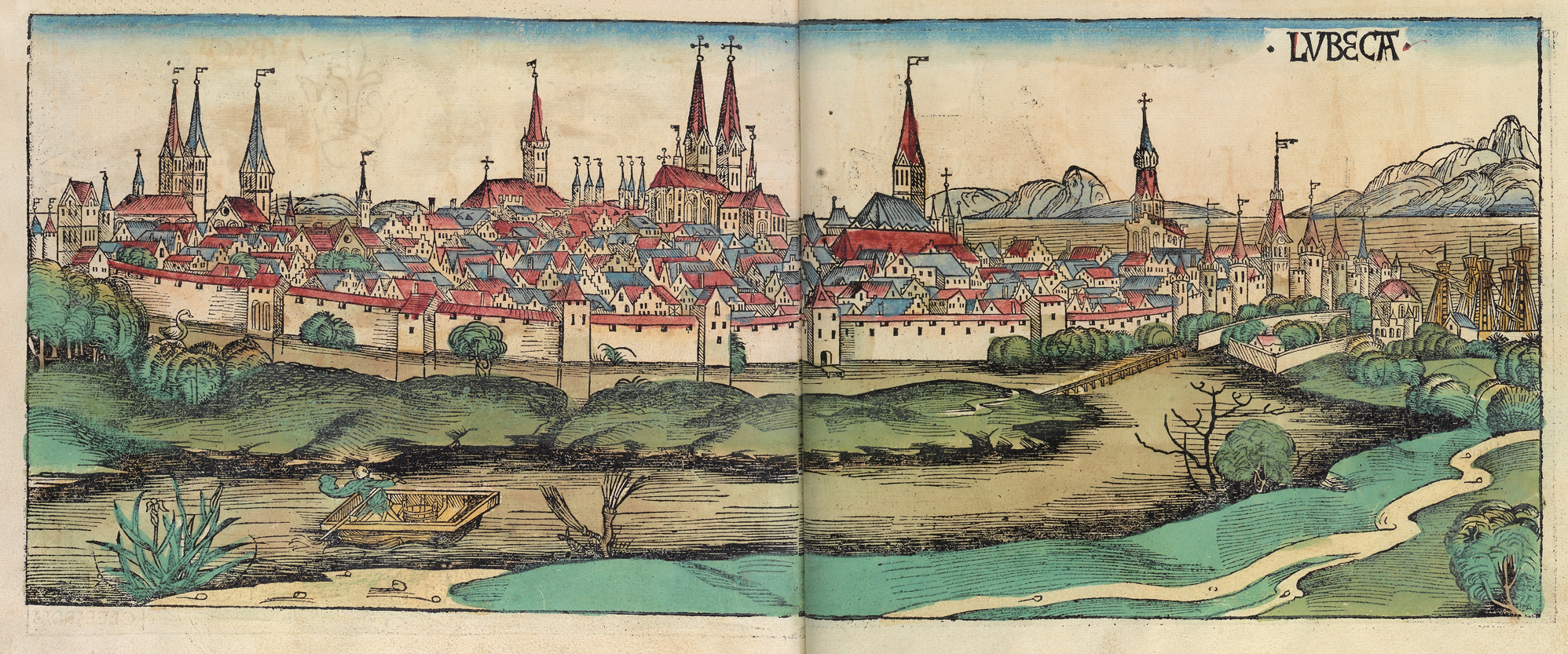 Woodcut of Lübeck from the Nuremberg Chronicle